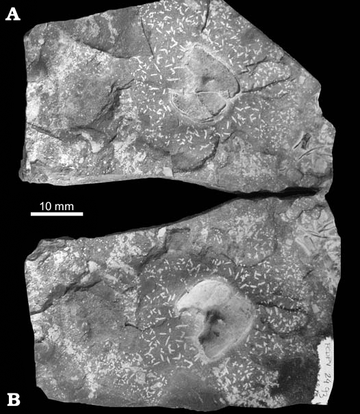 Original figure caption: Mesosaurid scapulocoracoid, FC−DPV 2493, part (A) and counterpart (B), from the Early Permian Mangrullo Formation (Northeastern Uruguay) preserved in a shale surface highly bioturbated by the trace fossil Chondrites.